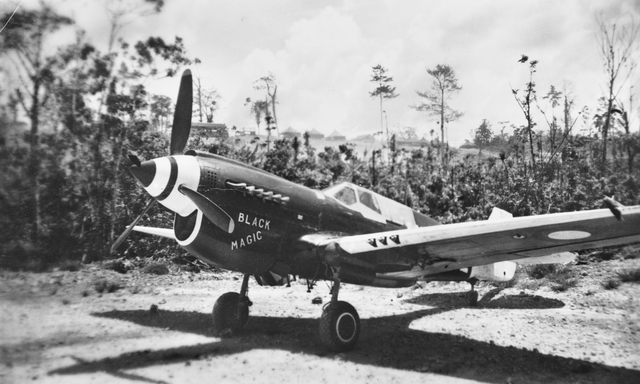 The Curtiss P-40N-15 Kittyhawk, "Black Magic" (code name "HU-E") serial A29-575 (US 42-106386), flown by No. 78 Squadron RAAF. F/L Denis Baker scored the RAAF's last aerial victory of the New Guinea campaign in this plane, on June 10, 1944. It was later flown by Warrant Officer Len Waters, the first Australian Aboriginal military pilot, with No. 78 Squadron RAAF, in the Dutch East Indies, 1944-45.